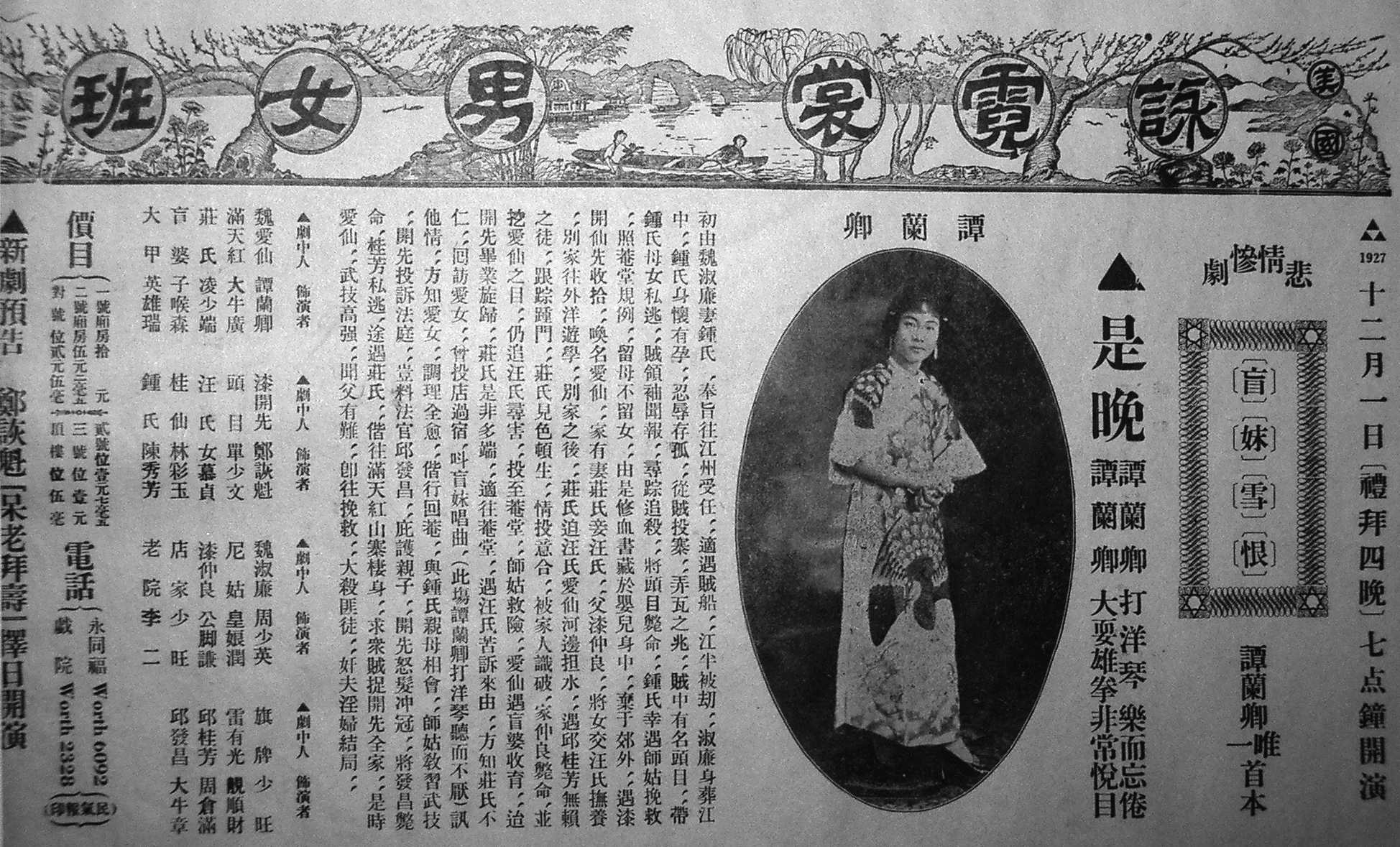 Propagate sheet of Opera Revenge of the Blind Girl, dated December 1, 1927 中文（香港）: 1927年12月1日 (星期四) 晚上7時在美國舊金山永同福戲院 (Worth Theatre) 演出《盲妹雪恨》(Revenge of the Blind Girl) 的戲橋。